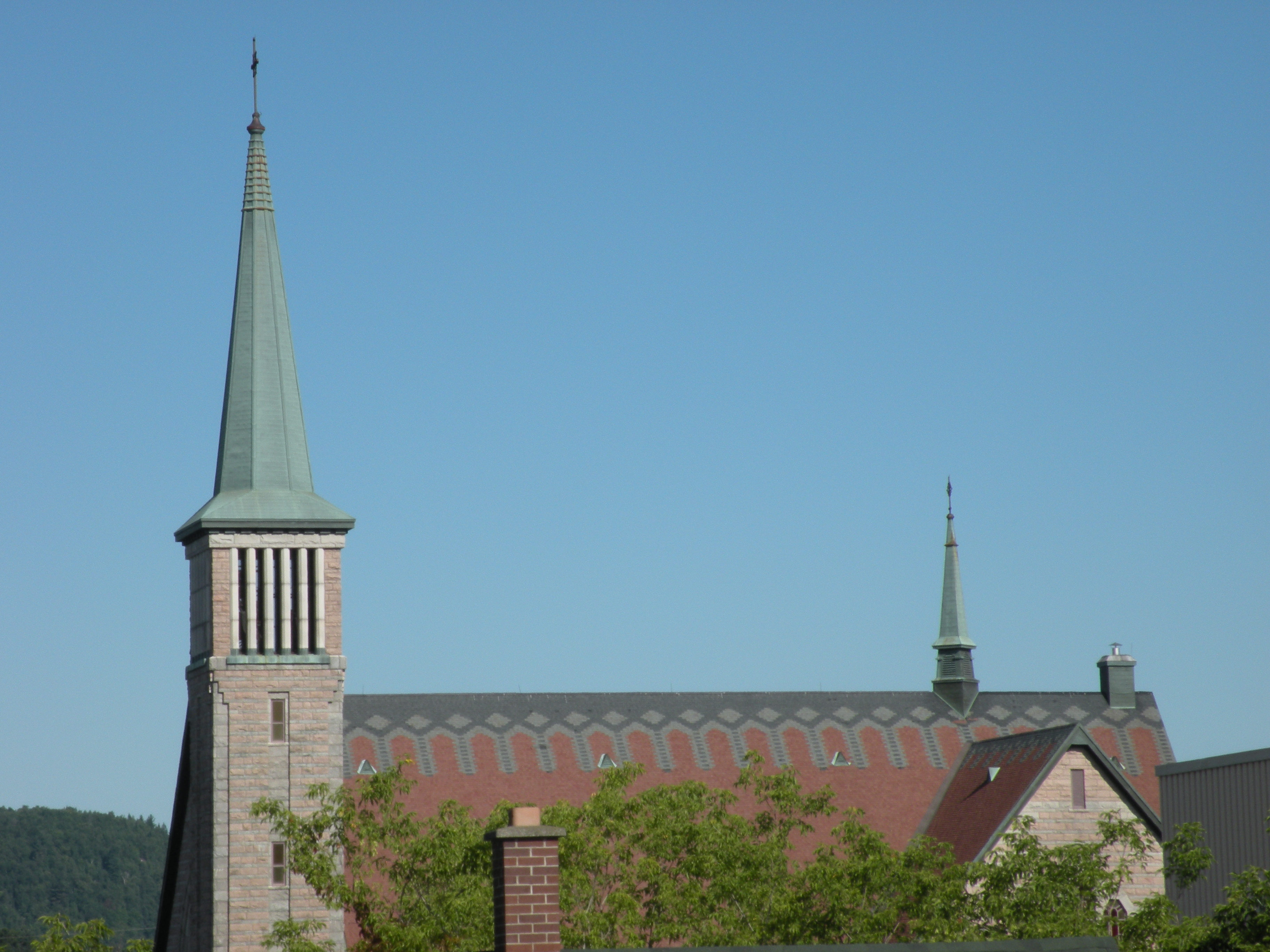 The Notre-Dame-des-Sept-Douleurs catholic church in Edmundston, New Brunswick, Canada.